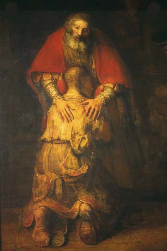 Peinture de Rembrandt